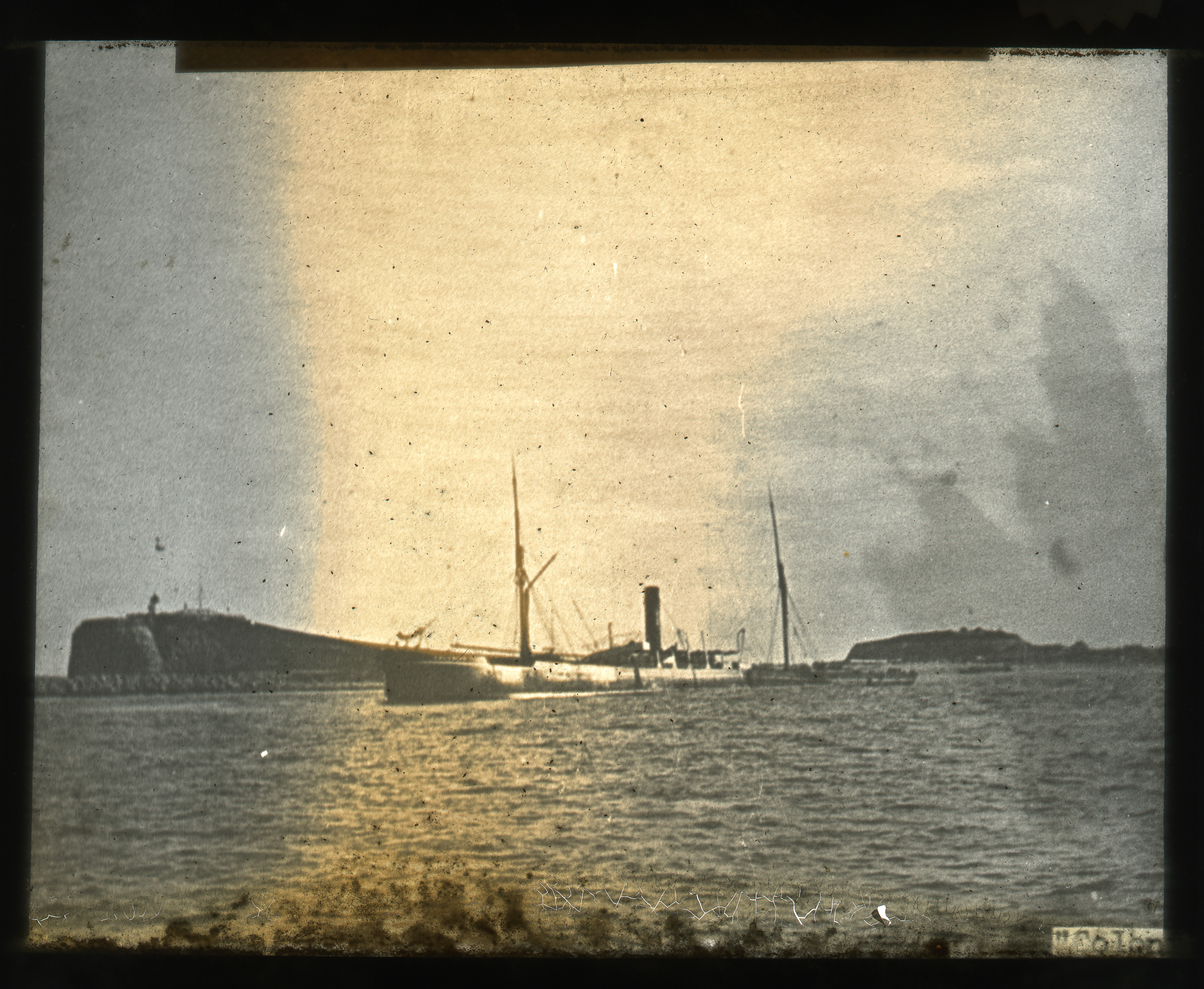 A photo of the shipwreck of the SS Colonist (1894) on Oyster Bank, Newcastle, NSW with Nobby's in the background.